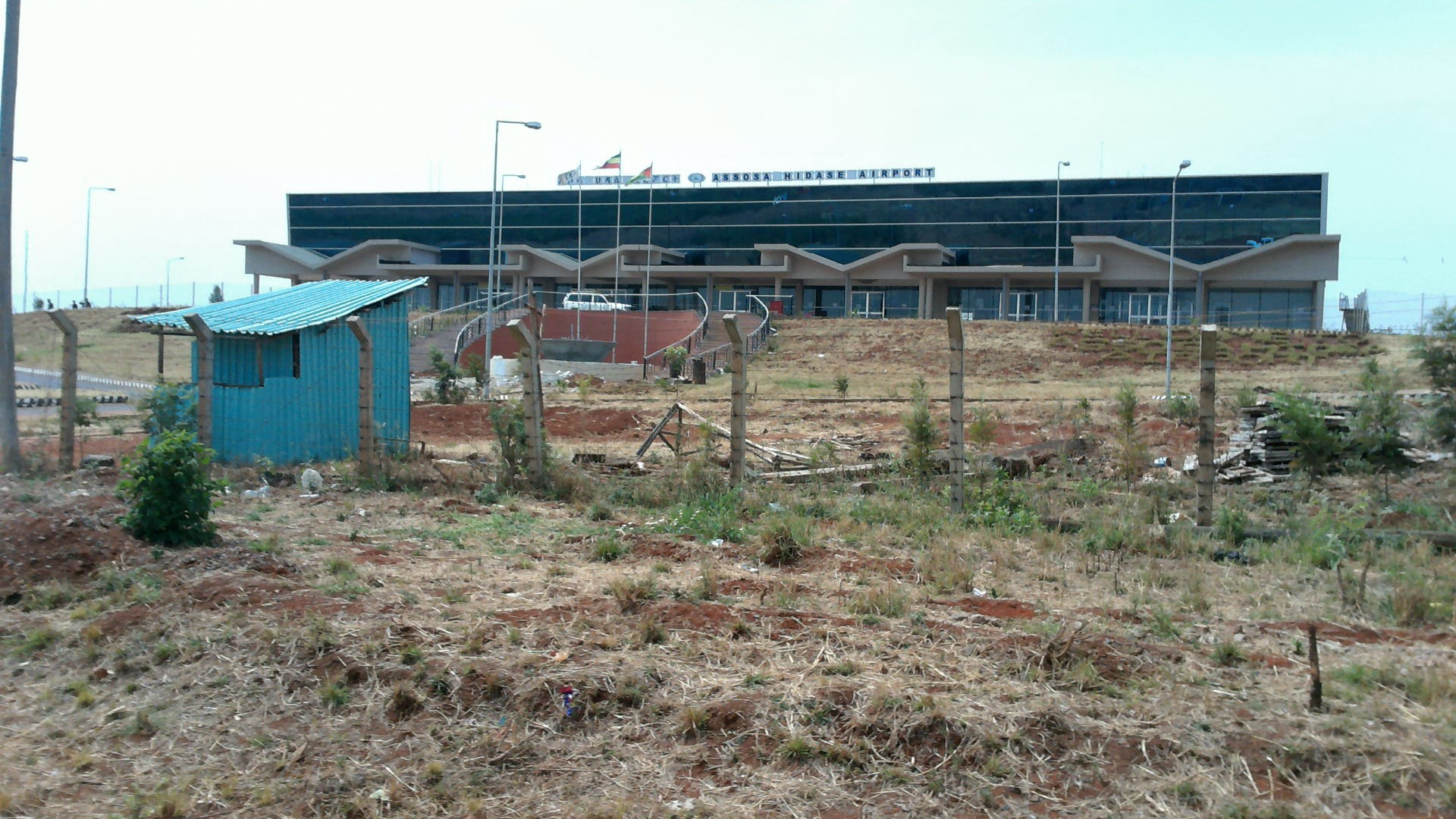 Asosa HIDASE Airport in Asosa, Ethiopia.